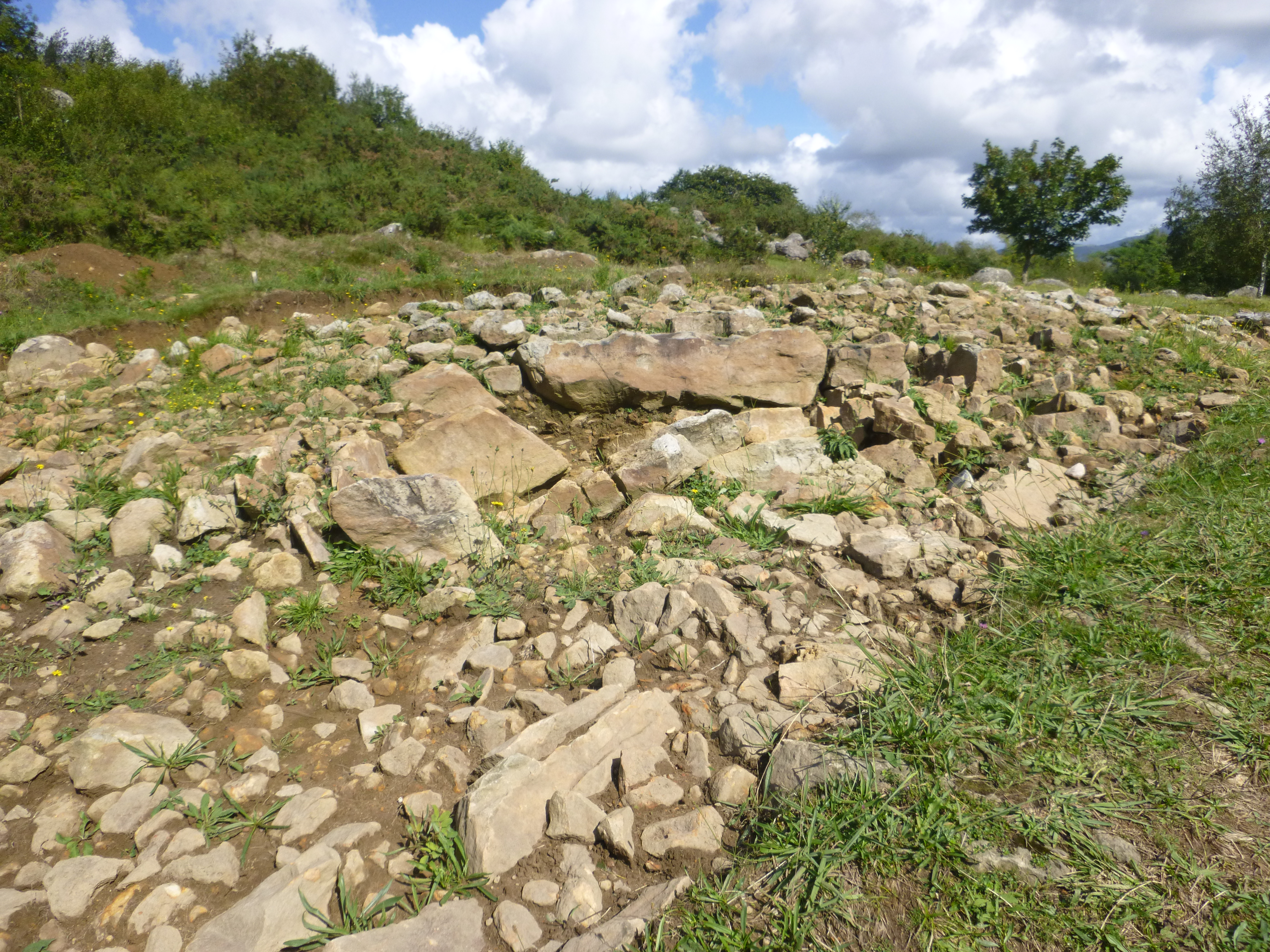 Txoritokieta megalithic site